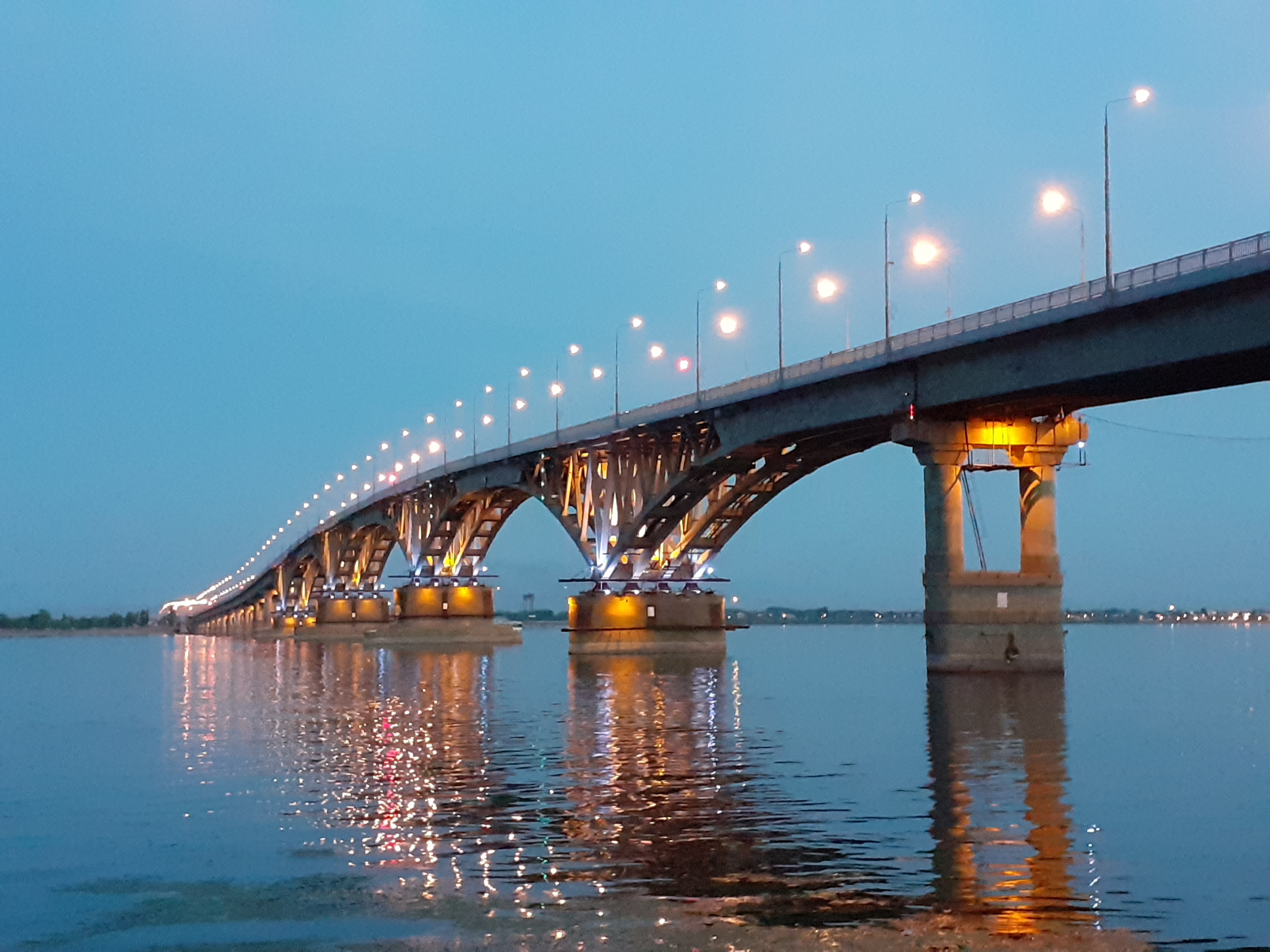 Saratov bridge in July 2020